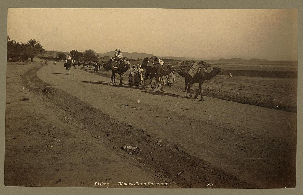 Biskra. Départ d'une caravane / ND.